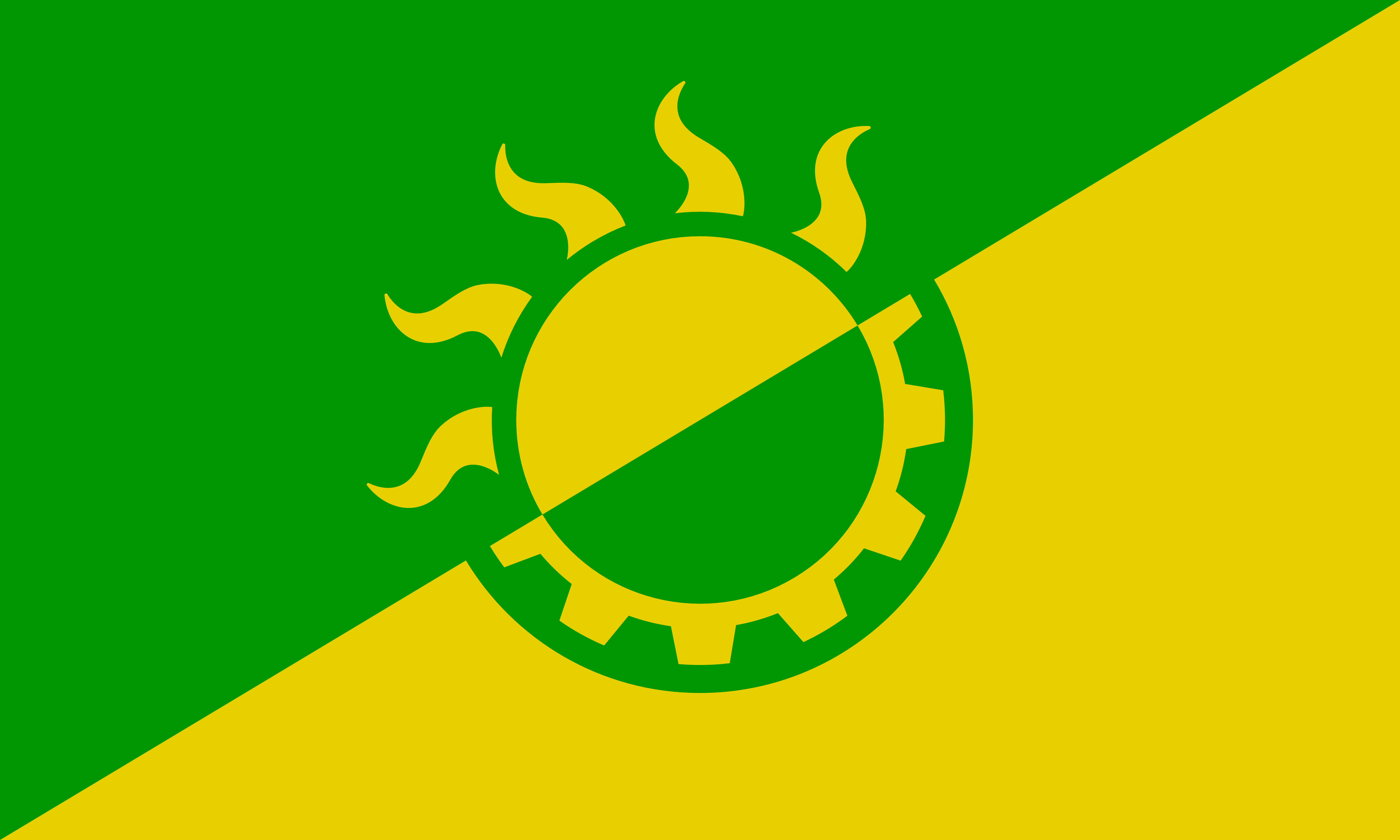 The yellow of the flag represents the solar power portion of the solarpunk movement, and the green represents sustainability. The half-gear symbolizes a reclaiming of technology for sustainable projects and infrastructure, and the sunbeams represent the hopefulness and futurism of the solarpunk movement. The solarpunk movement seeks to answer the question "what does a sustainable society look like" by taking any and all good and accessible technologies and lifestyles and making them widespread. It is a form of resistance through infrastructure and activism, and it is also a derivative of the broader term "hopepunk". Solarpunks refuse to give up to the idea that we are ecologically doomed.